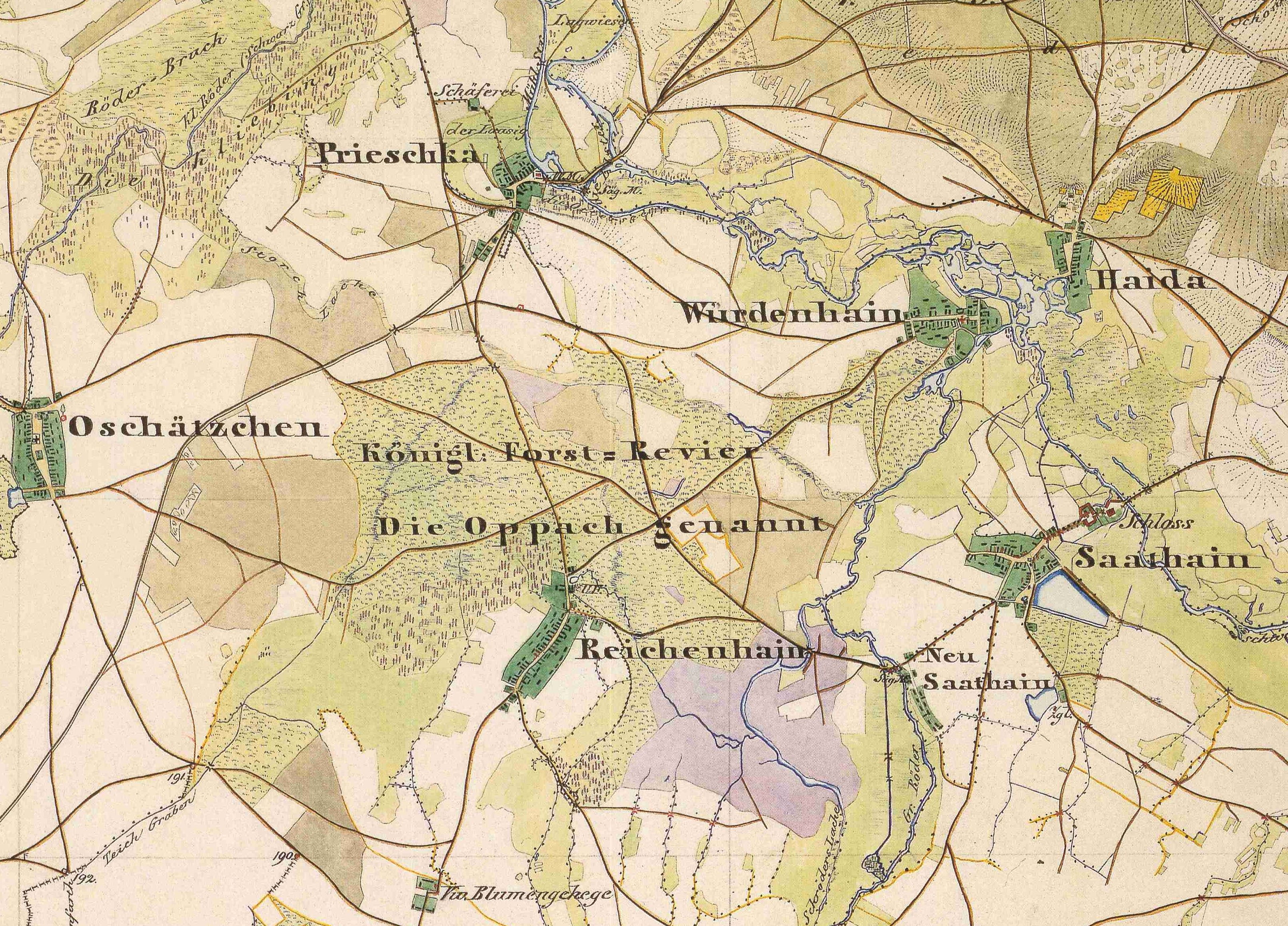 Oppach, Lkr. Elbe-Elster, Brandenburg, Germany, detail from the Urmesstischblatt Sheet 4546 Gröditz, drawn in 1847